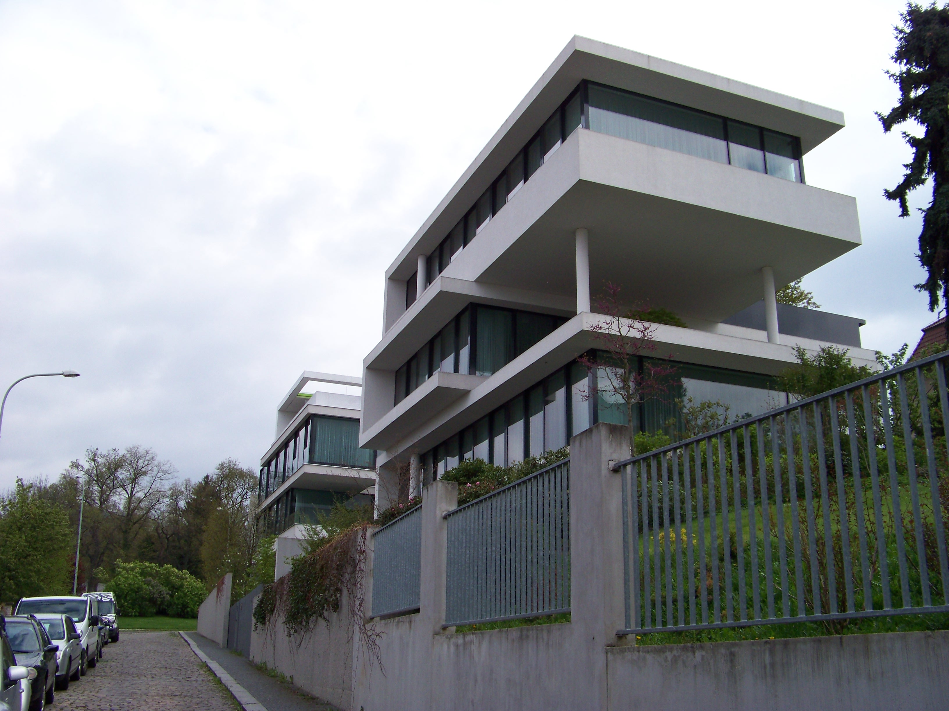 Prague-Podolí, Czech Republic. Na lysině 1181/6, Lopatecká 1182/3.